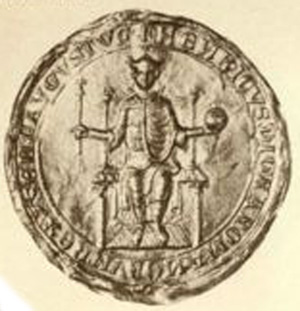 Henry (VII) of Germany